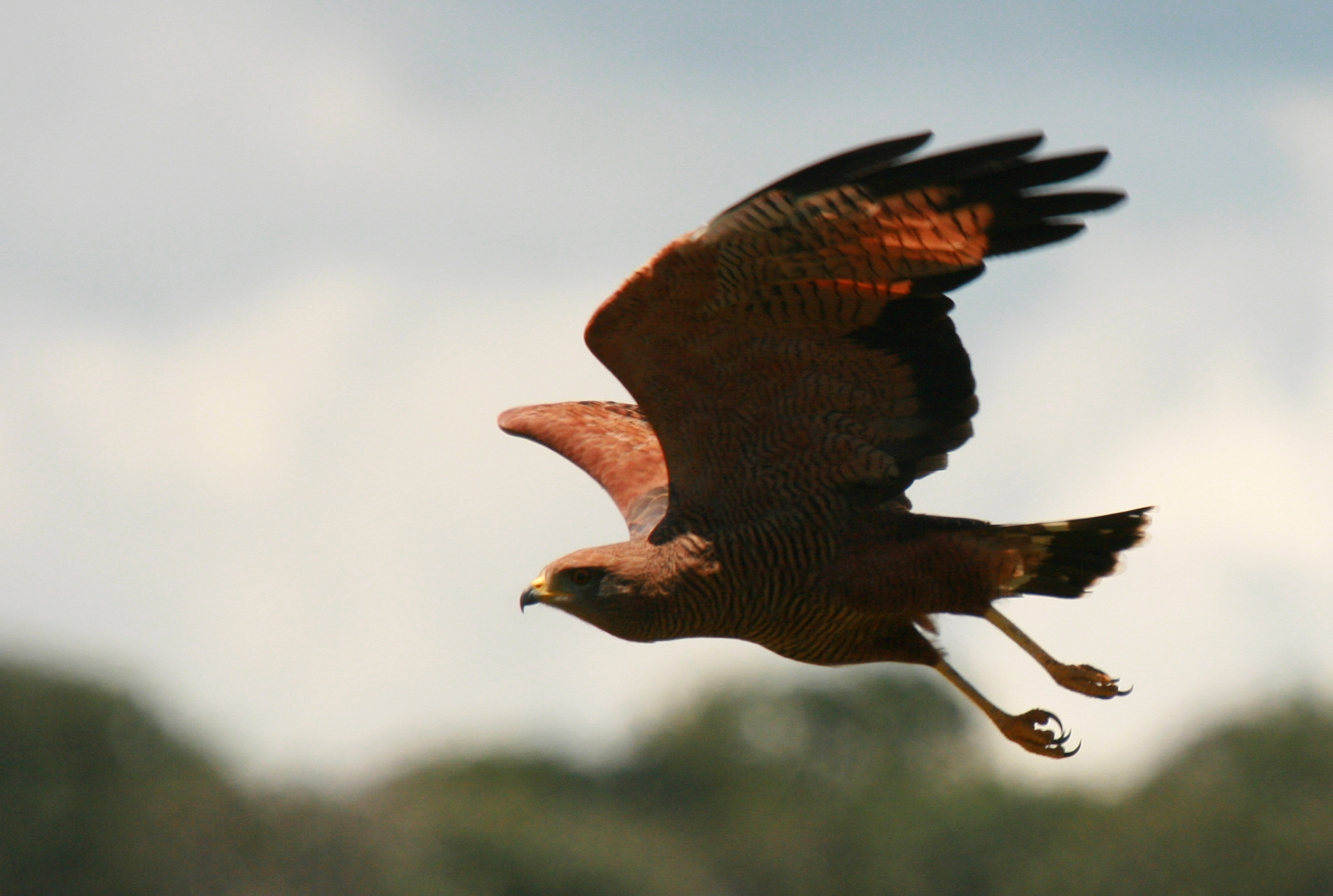 A Savanna Hawk flying in the cerrado at Cristianópolis, Goiás, Brazil.